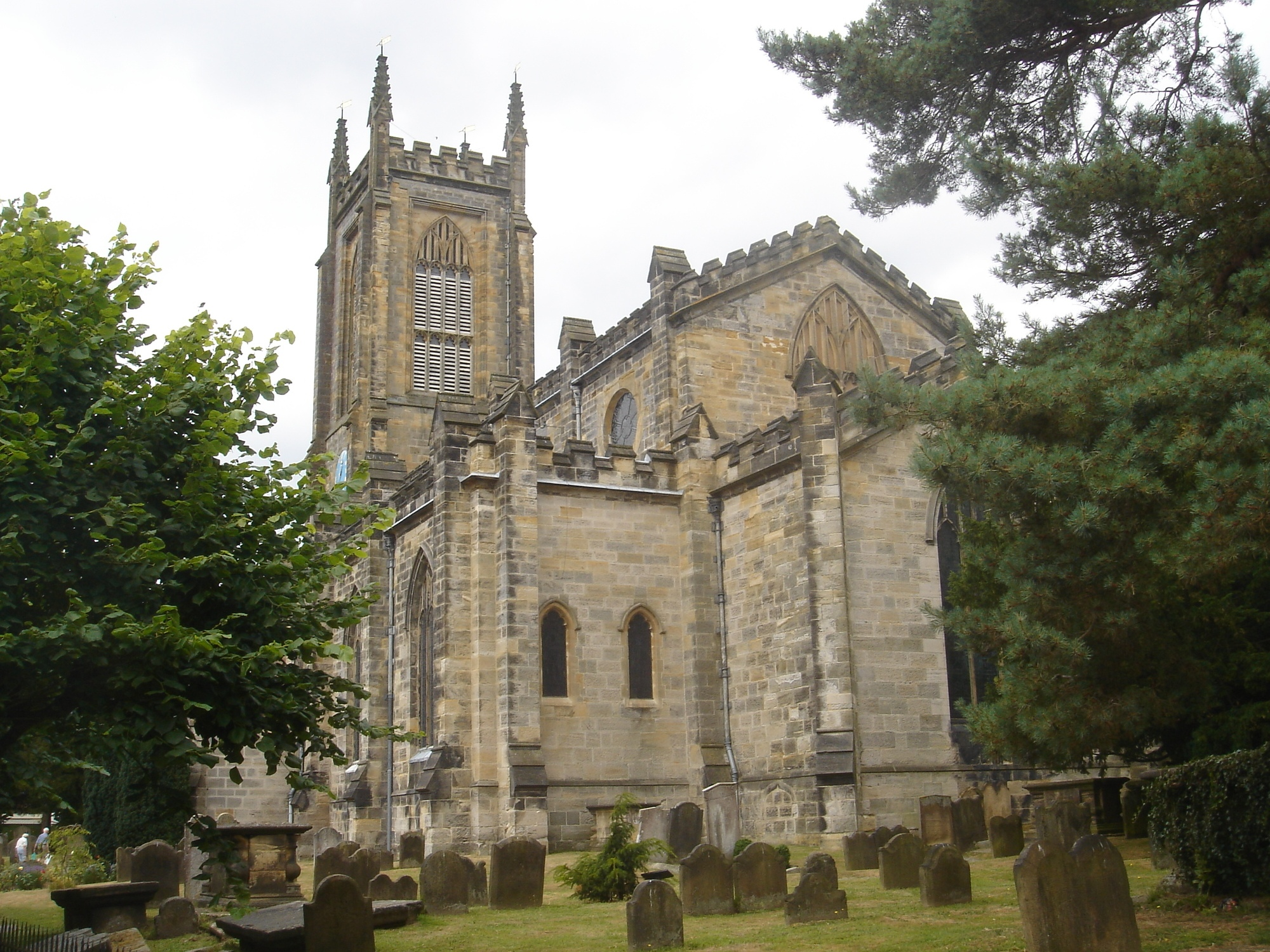 St Swithun's Church, Church Lane, East Grinstead, District of Mid Sussex, West Sussex, England. The parish church of the town of East Grinstead, rebuilt in 1789. Listed at Grade B (equivalent to Grade II*) by English Heritage (IoE Code 430476)